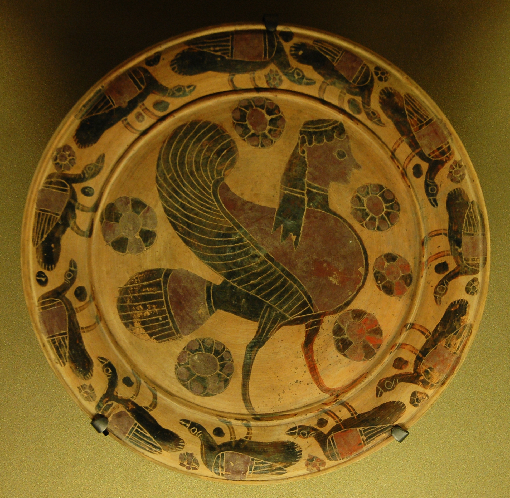 Siren. Boeotian black-figure dish, ca. 570–560 BC. Found in Tanagra.